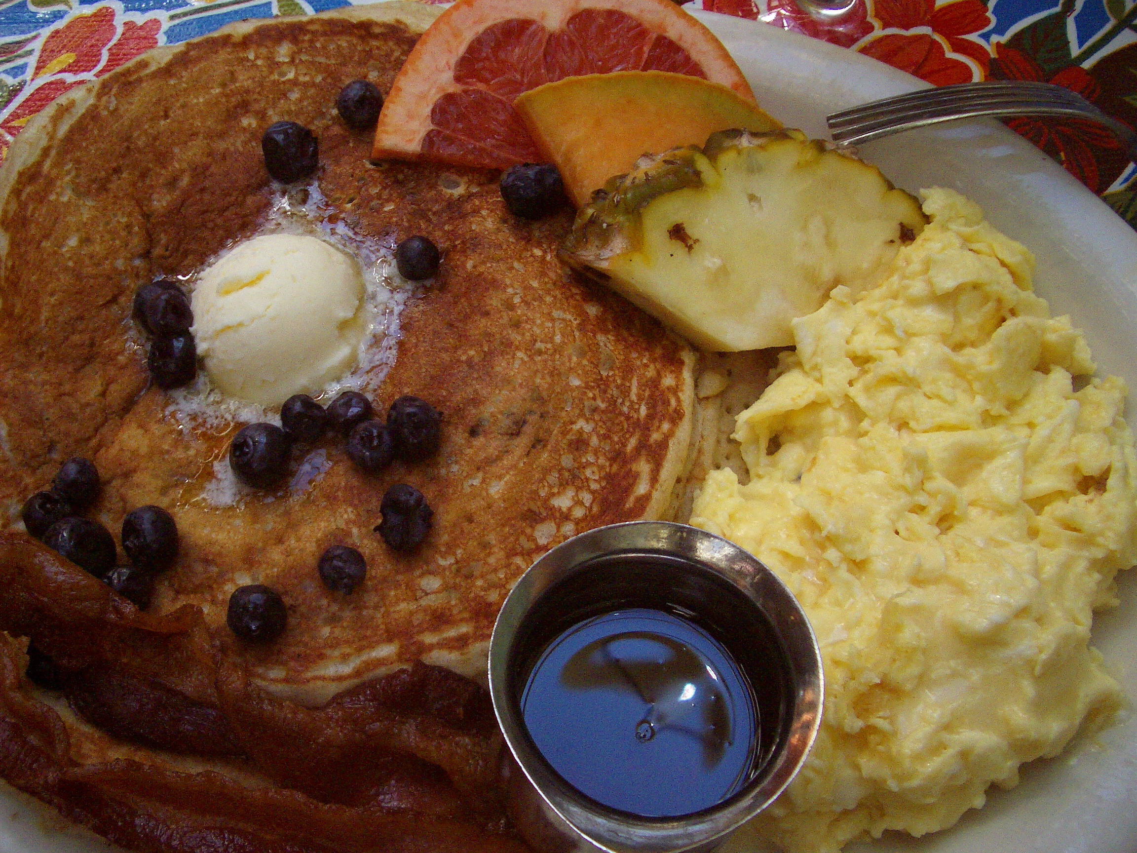 Breakfast